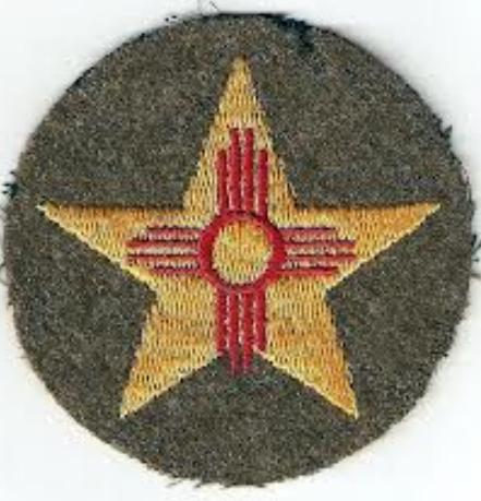 Shoulder Sleeve Insignia of 56th Cavalry Brigade. The brigade was made up of units from Texas, represented by the lone star, and New Mexico, represented by the superimposed red sun of the Zia people.